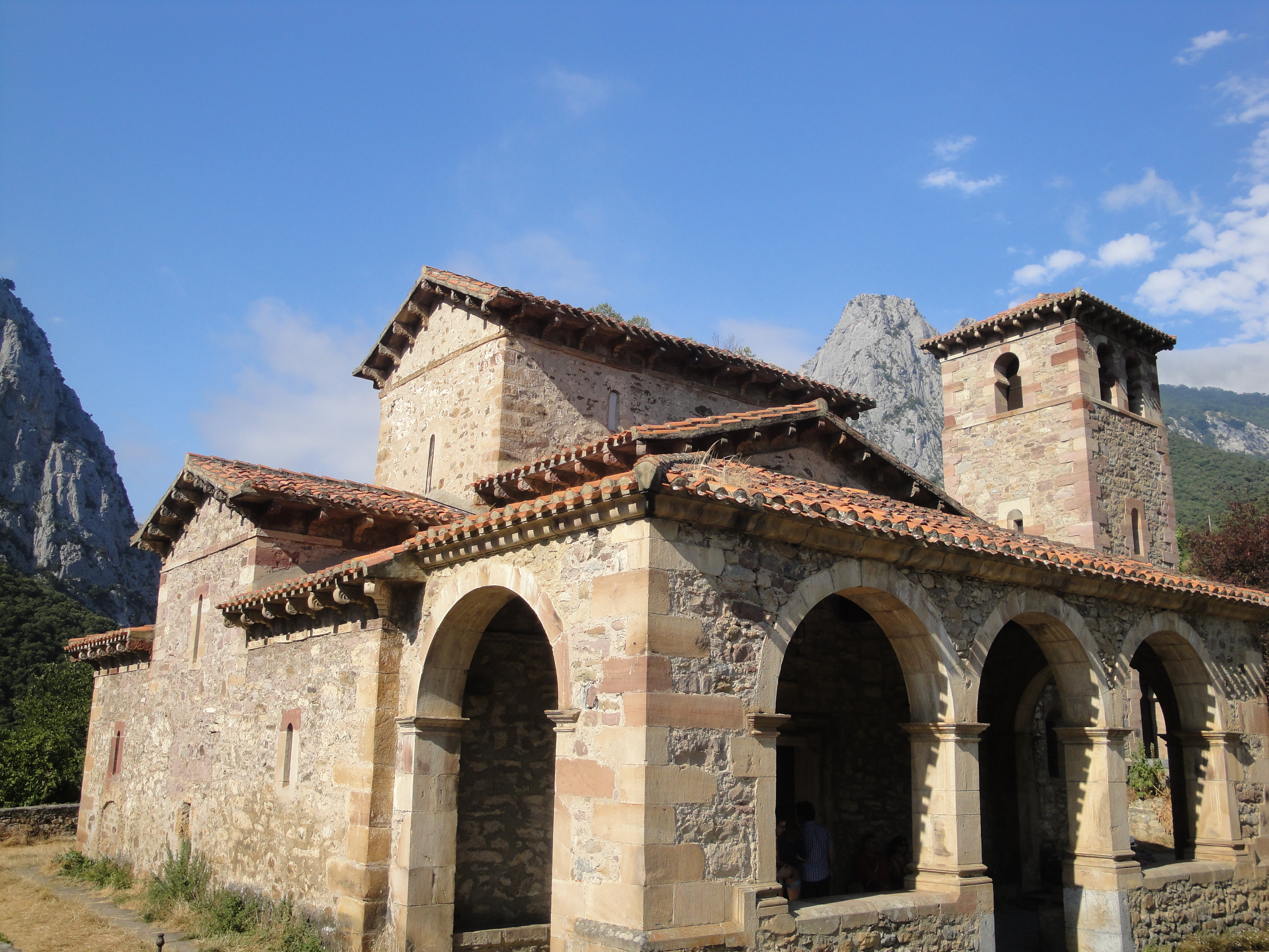 Santa Maria de Lebeña church.